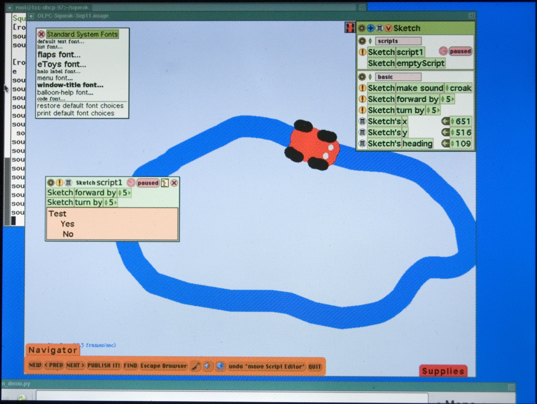 Application EToys on XO's dual mode display.